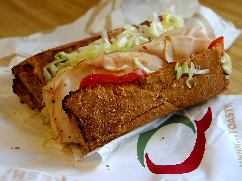 Photograph of a submarine sandwich from Quizno's. Taken on March 27, en:2004. Photographer Jon Sullivan